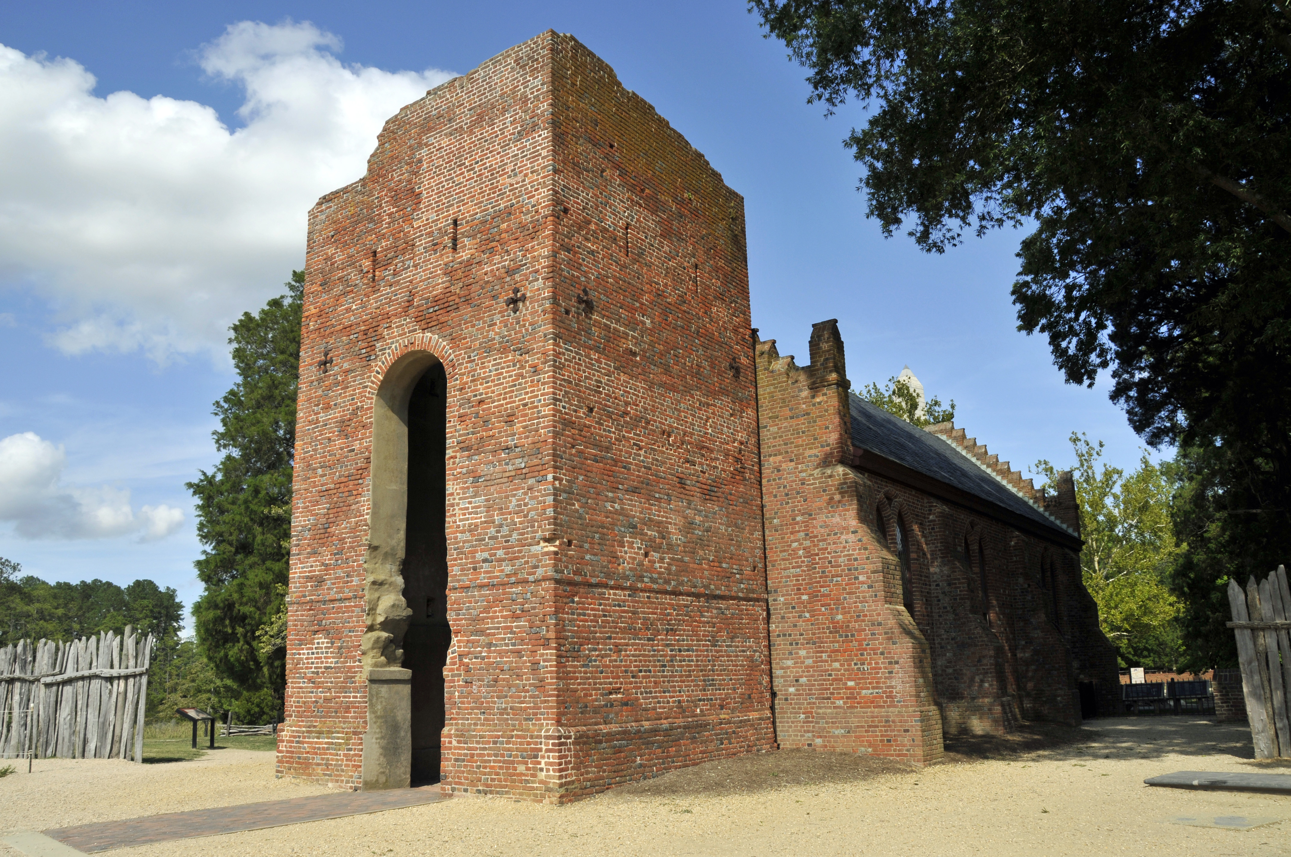 Remains of the 1639 Jamestown Church tower (with 20th century reconstruction on the original foundations)